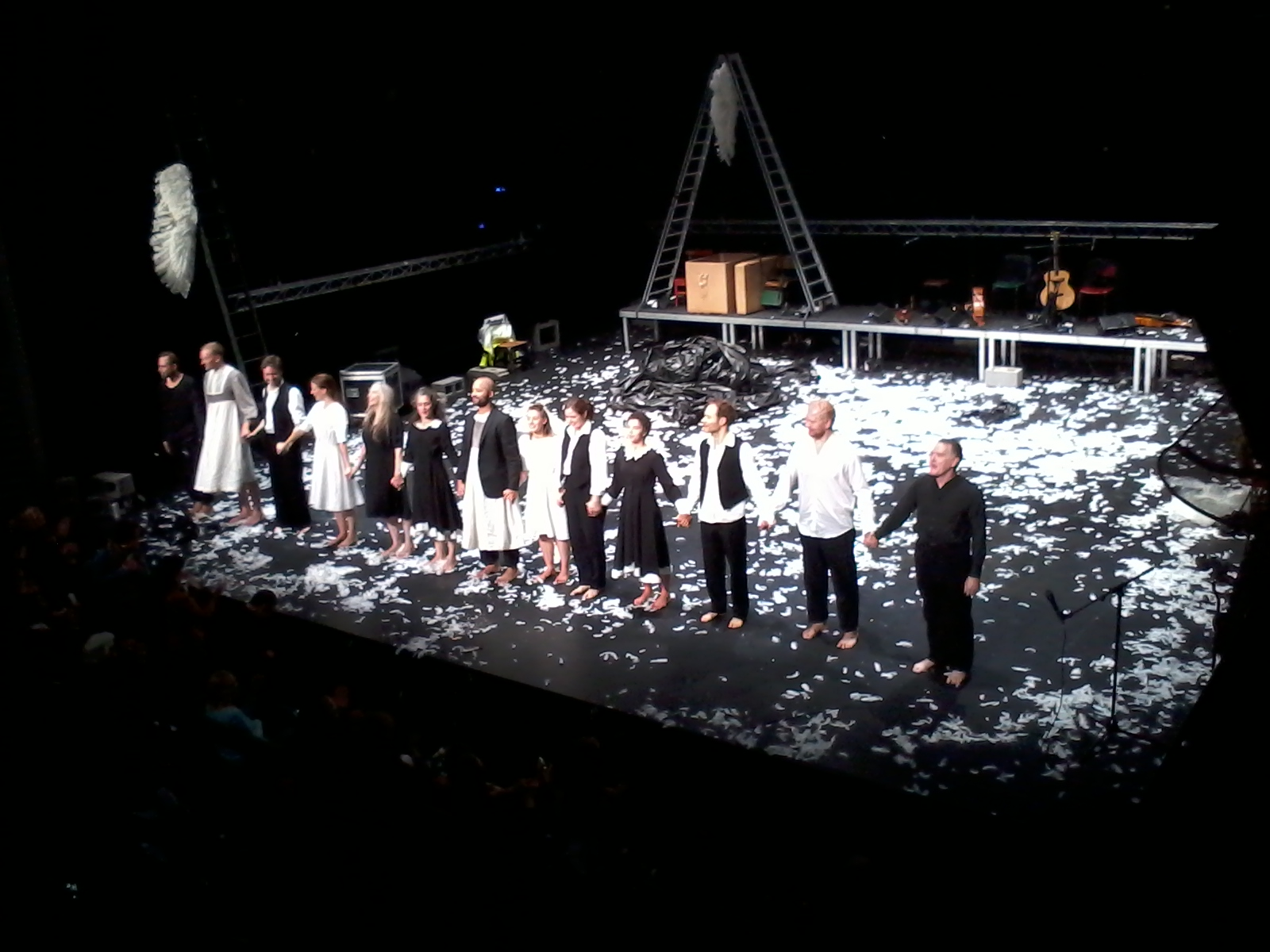 Teaċ Daṁsa with their performance Loch na hEala at the DanceInversion 2017 in Korsh Theatre, Moscow, Russia.